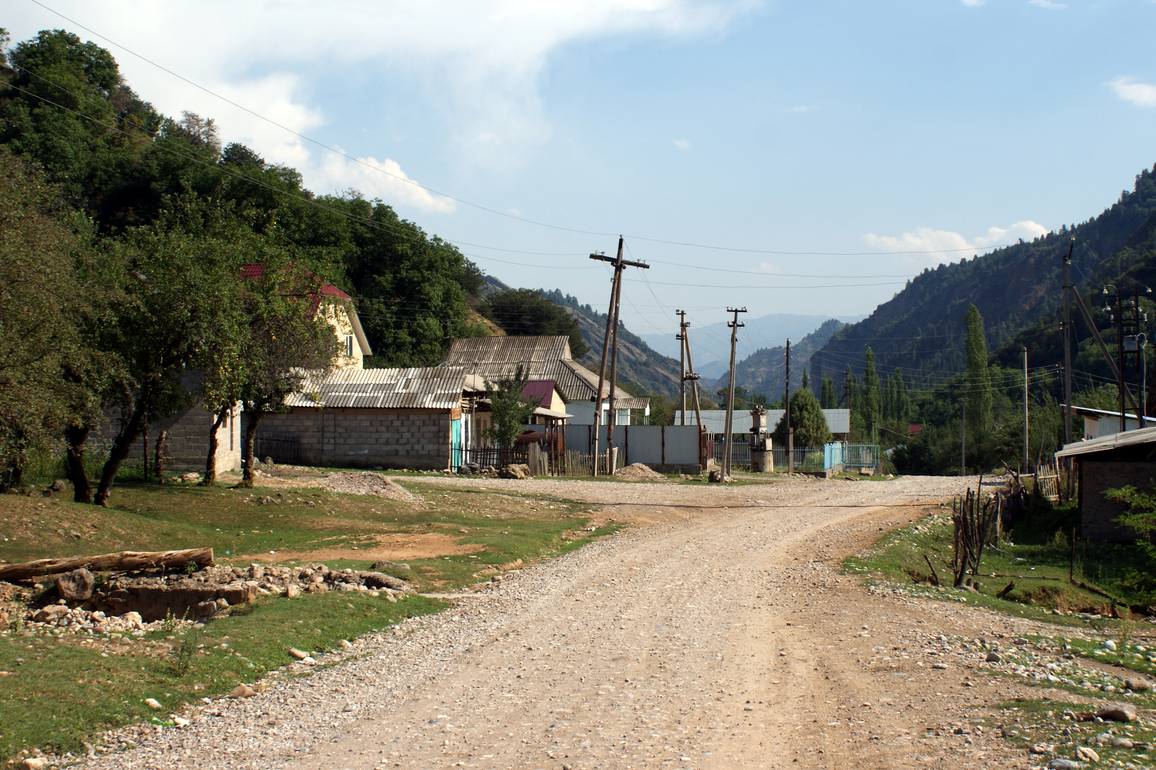 Centre of the village Arkyt in Kyrgyzstan